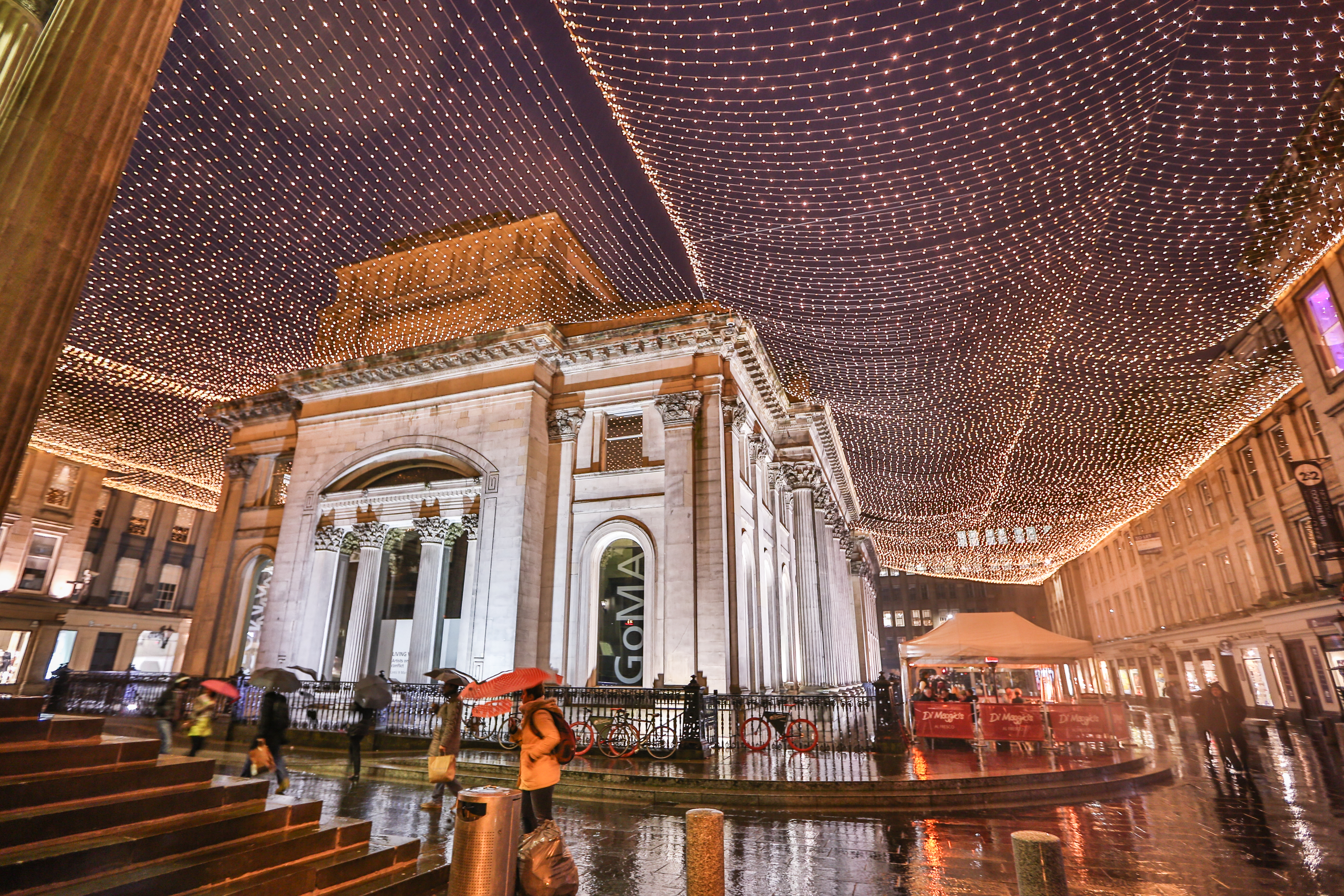 Glasgow Gallery of Modern Art (GoMA) at Merchant City